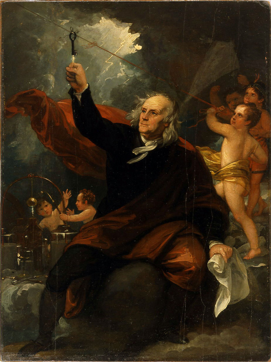 Benjamin Franklin Drawing Electricity from the Sky (ca. 1816)